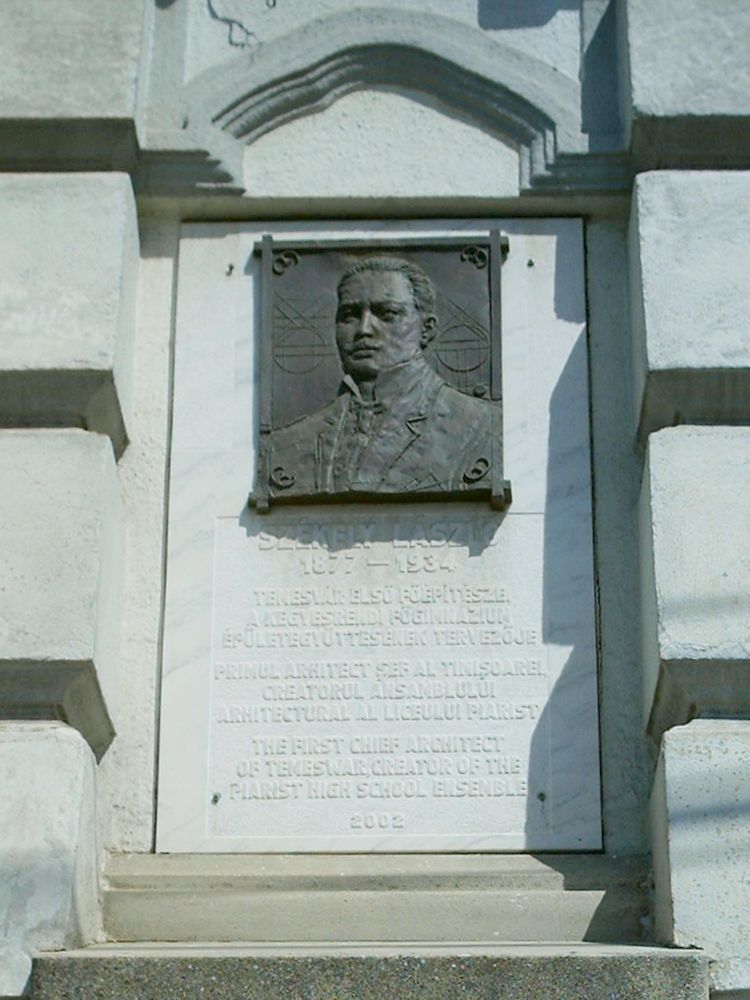 Székely László, architect, on the "Piarist High School" in Timişoara, Romania.